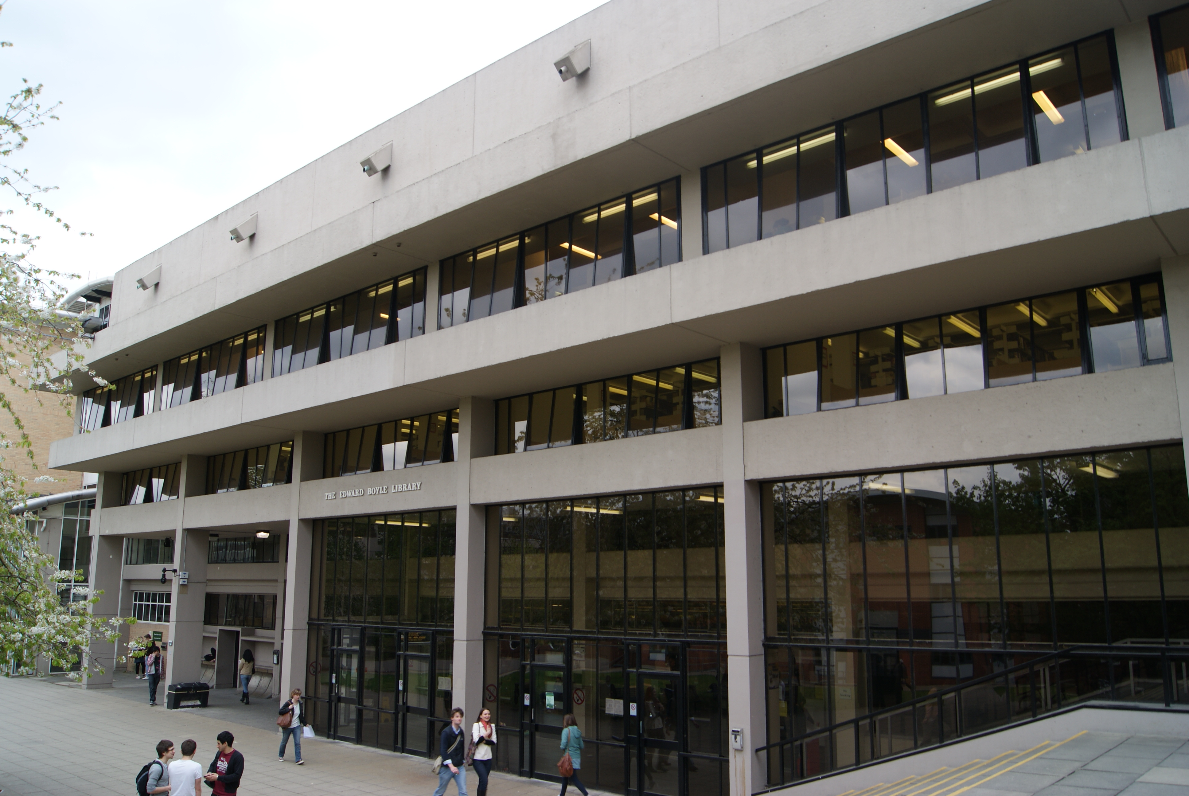 The Edward Boyle Library at the University of Leeds. Taken on the afternoon of Tuesday the 4th of May 2010.